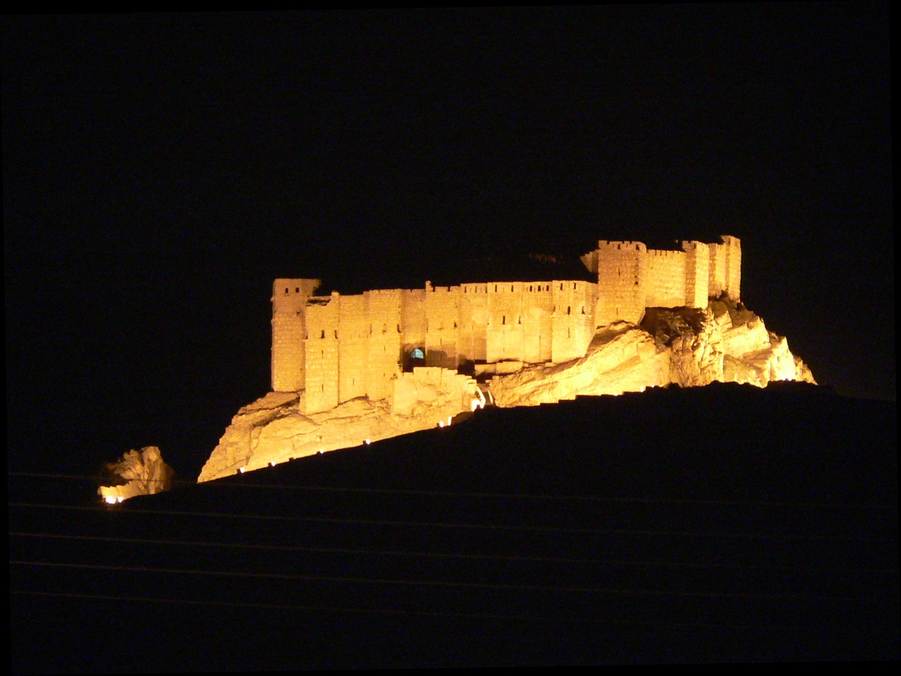 Taken from downtown Tudmur (Palmyra) February 2005 M. Disdero